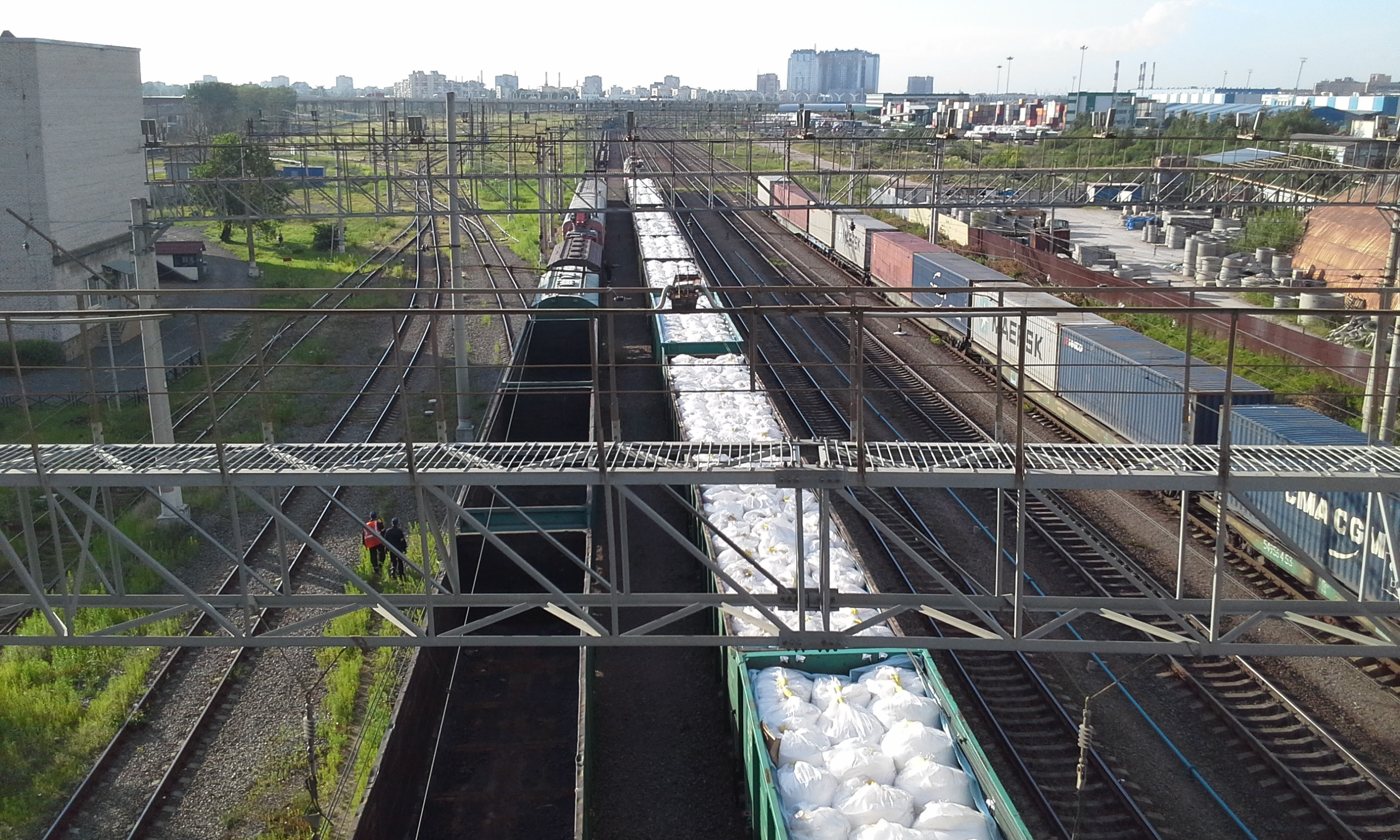 Predportovaya